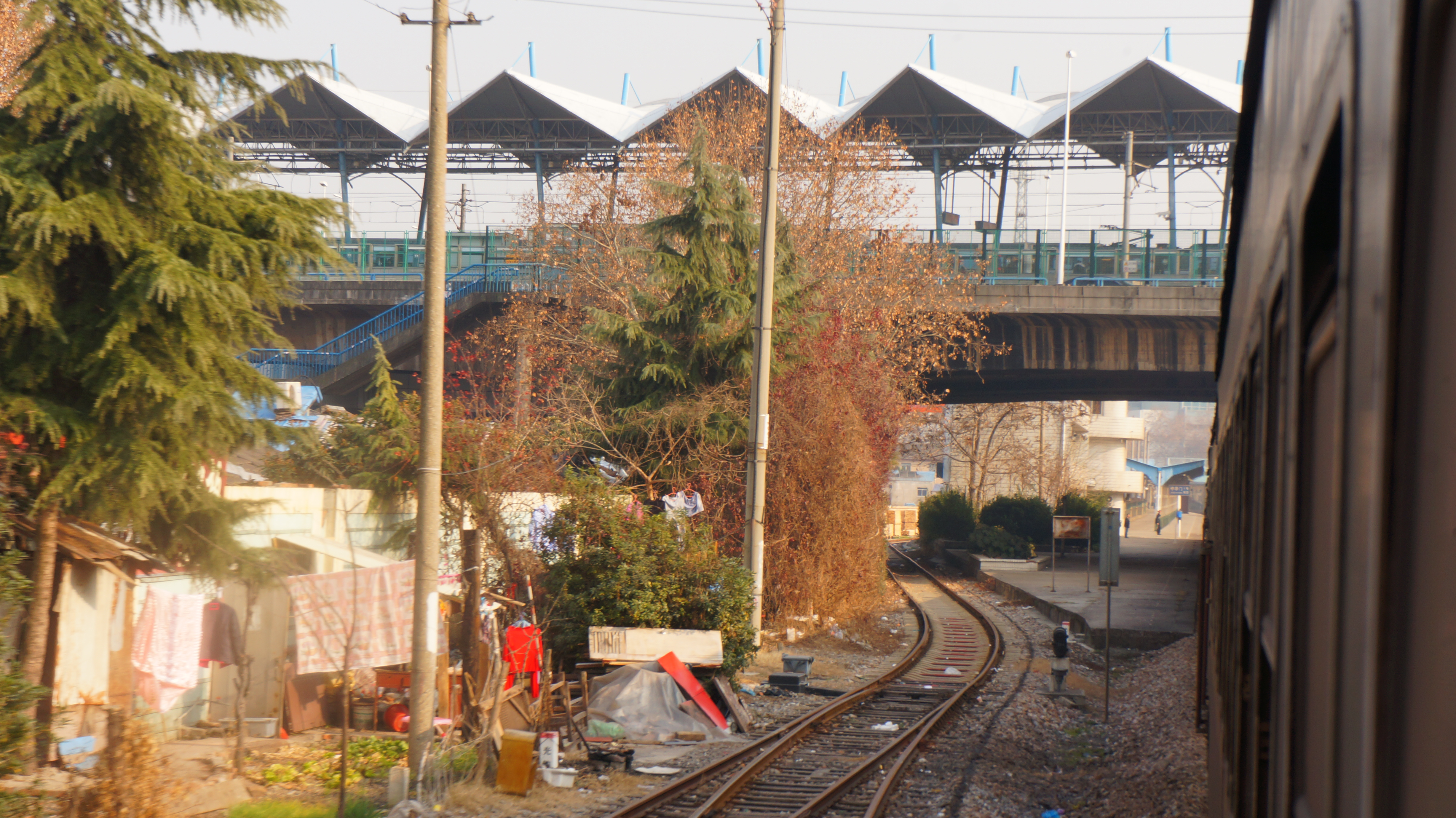 Zhonghuamen Railway Station and Zhonghuamen Station(Nanjing Metro) across the railway